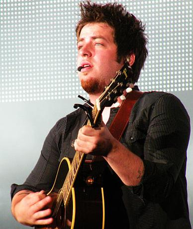 Lee Dewyze performing on the American Idol Live tour in Denver, CO on 8/23/2010